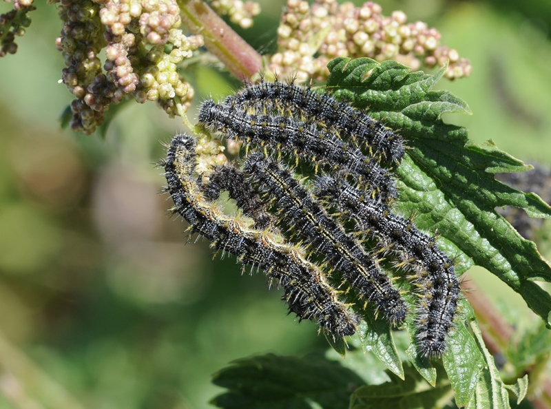 A group of larvae of "Turkish Small Tortoiseshell" [Aglais urticae turcica (Staudinger, 1861)] feeding leaves of stinging nettle (Urtica sp). Dirsekkaya, Palandoken - Erzurum, Turkey. 2800 m.